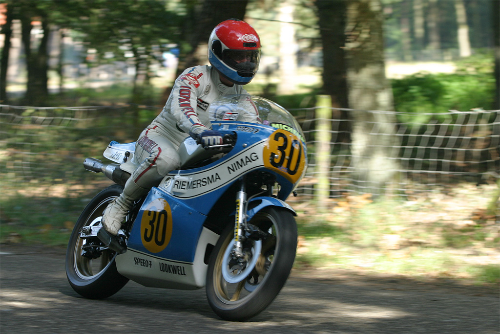 Wil Hartog riding his Suzuki in Oldebroek, Netherlands